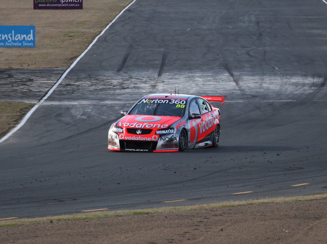 The Holden Commodore V8 Supercar of Jamie Whincup at the Ipswich 300 on August 20, 2011. Image cropped with Picasa 3.